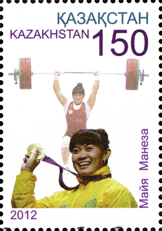 Stamps of Kazakhstan, 2013